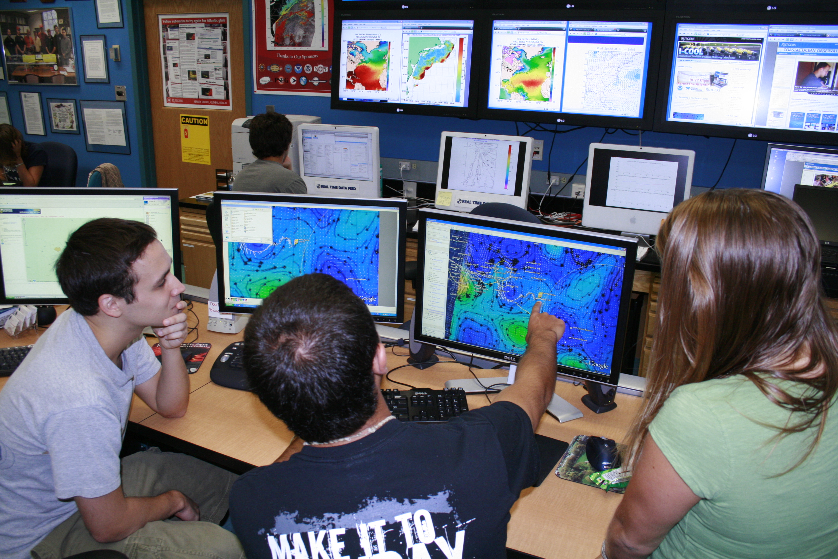 Using OOI data in educational venues. Photo provided by Rutgers, The State University of New Jersey.